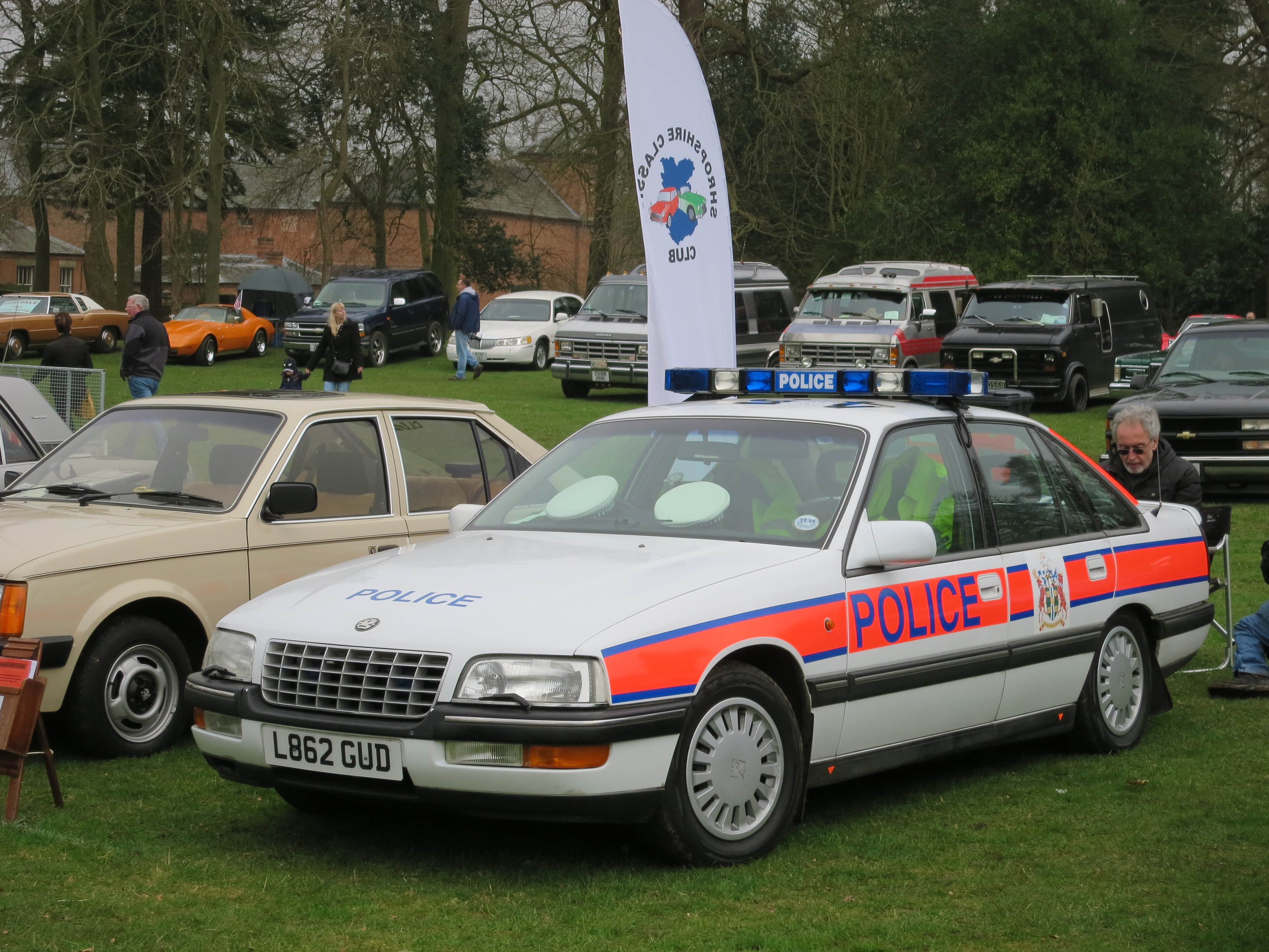 Vauxhall Senator (1993) dressed for police service